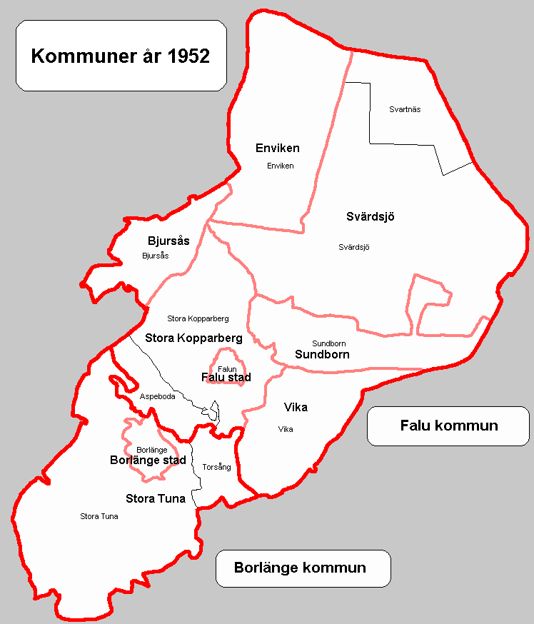 Old municipalities of Falun and Borlänge